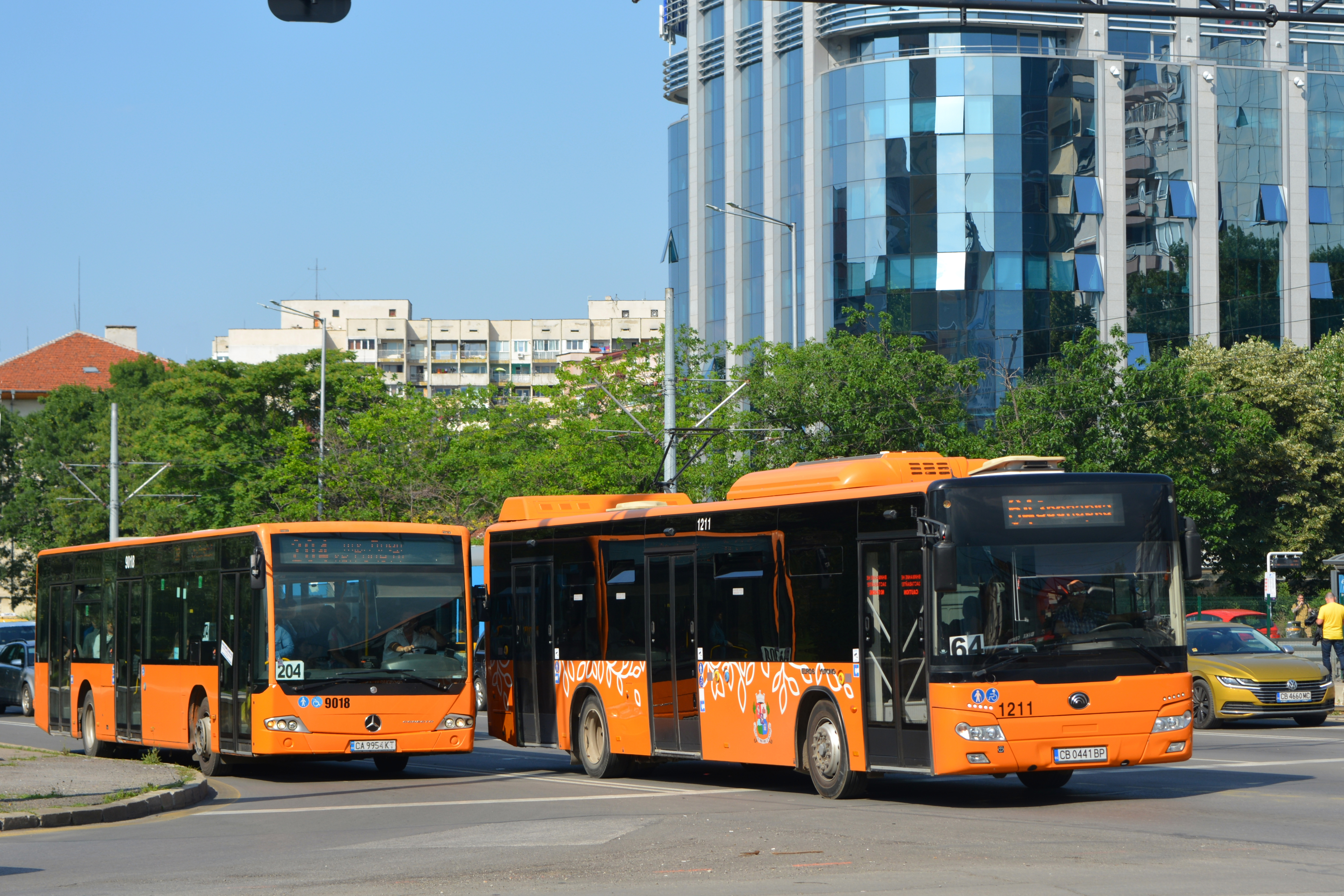 Public transport buses in Sofia, Bulgaria.